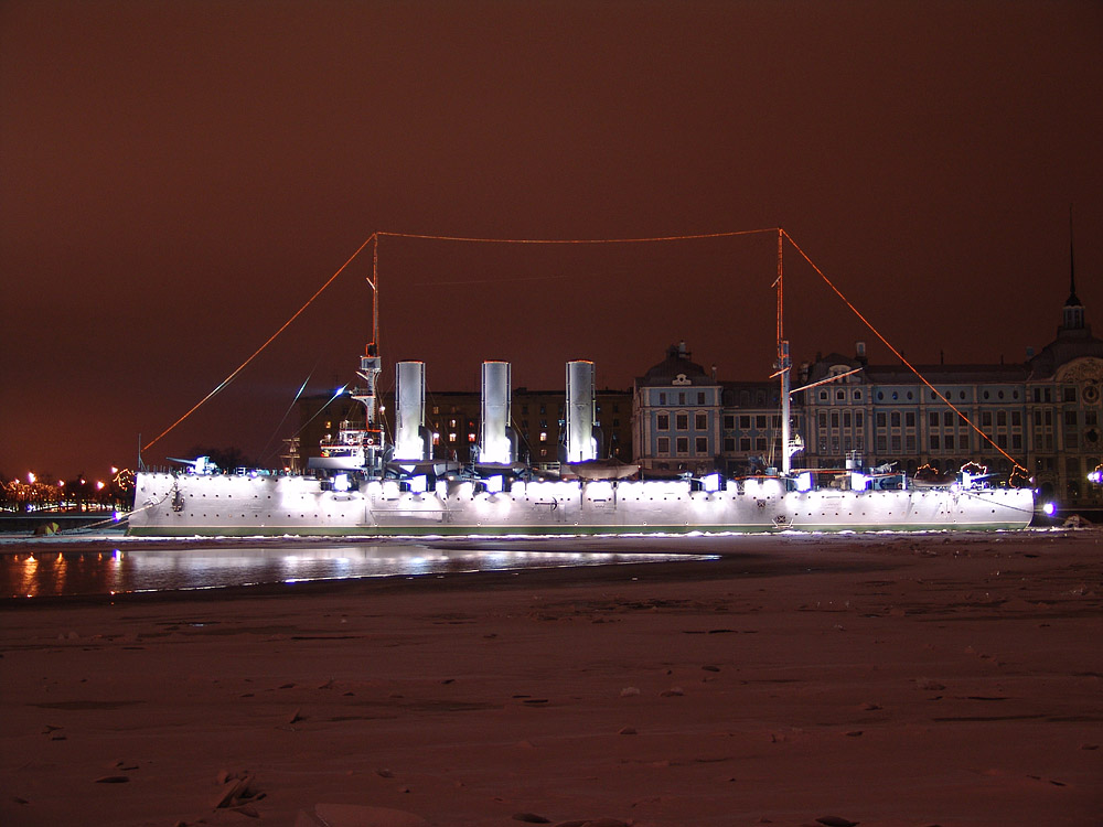 The Aurora, St Petersburg